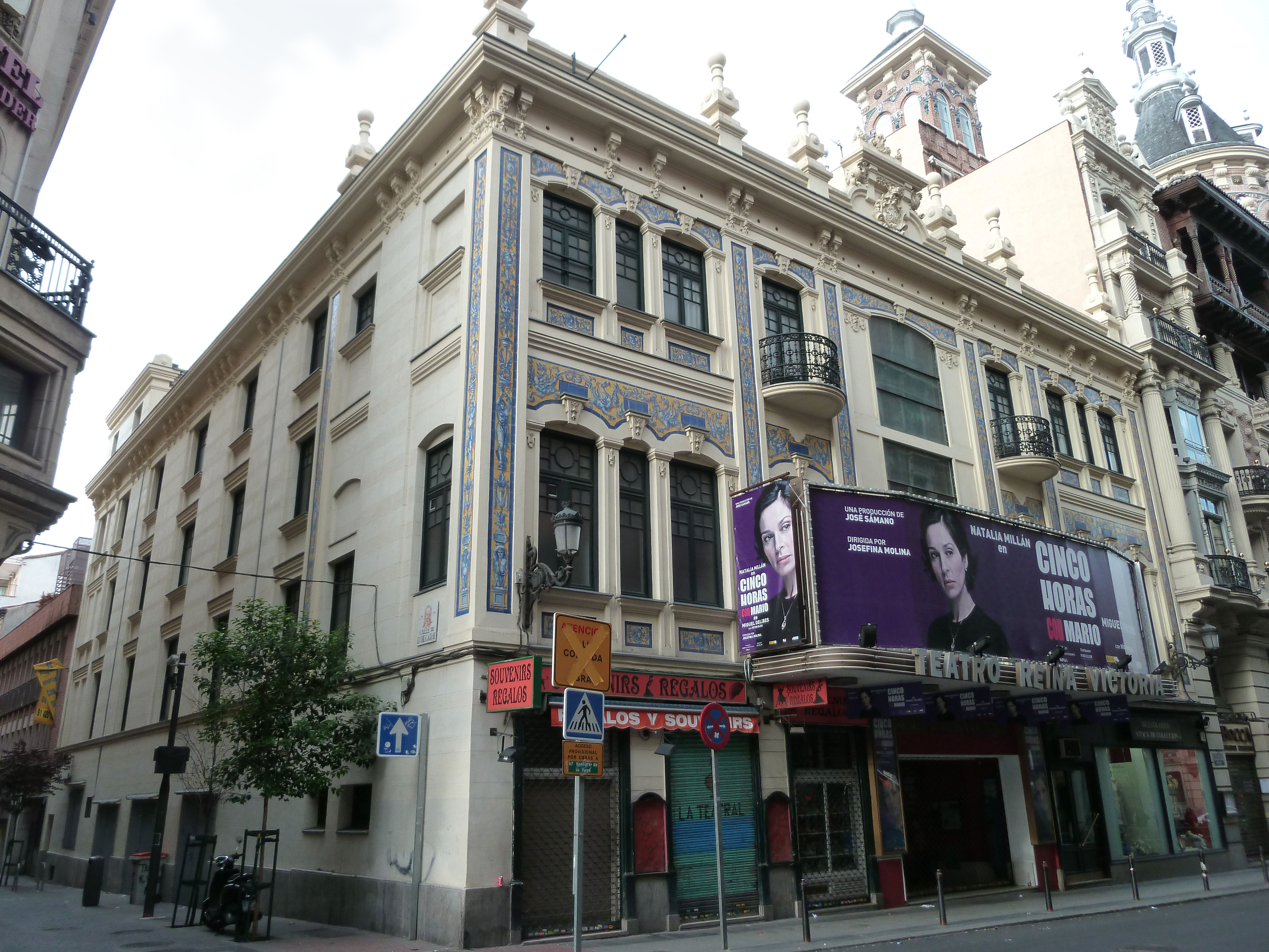 Façade of Teatro Reina Victoria (a theater), at 26 Carrera de San Jerónimo (street) in Centro district in Madrid (Spain). Projected in 1915 by José Espelius Anduaga and built from 1915 to 1916.